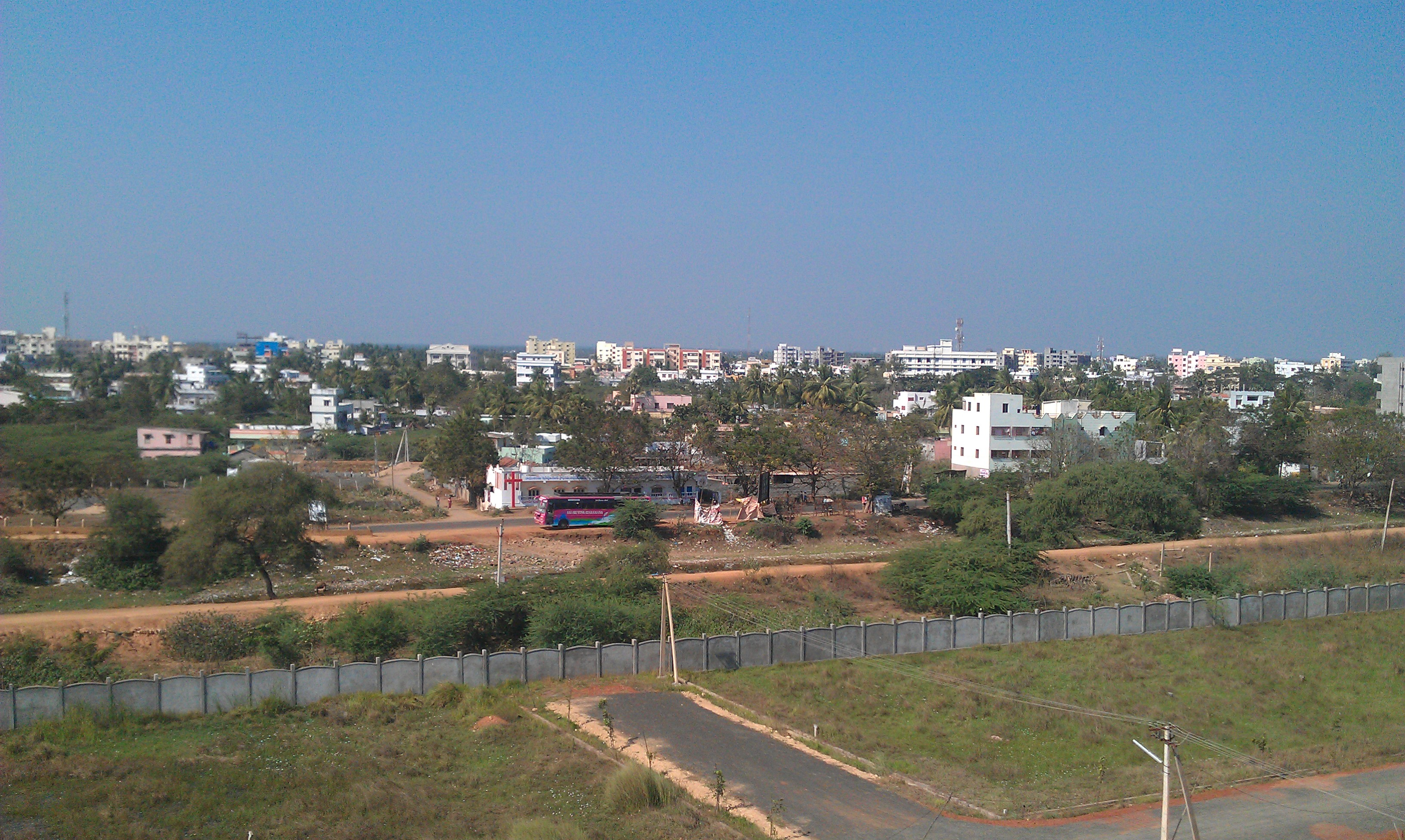 this is a photo taken by me.